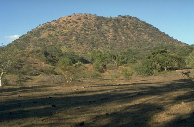 The principal vent of Jorullo volcano, seen here from the SSE, formed a cinder cone that grew to 250 m in height during the first month and a half of the eruption. Lava flows were erupted at some unknown later time from four flank vents located along a NE-SW fissure cutting through the main cone.